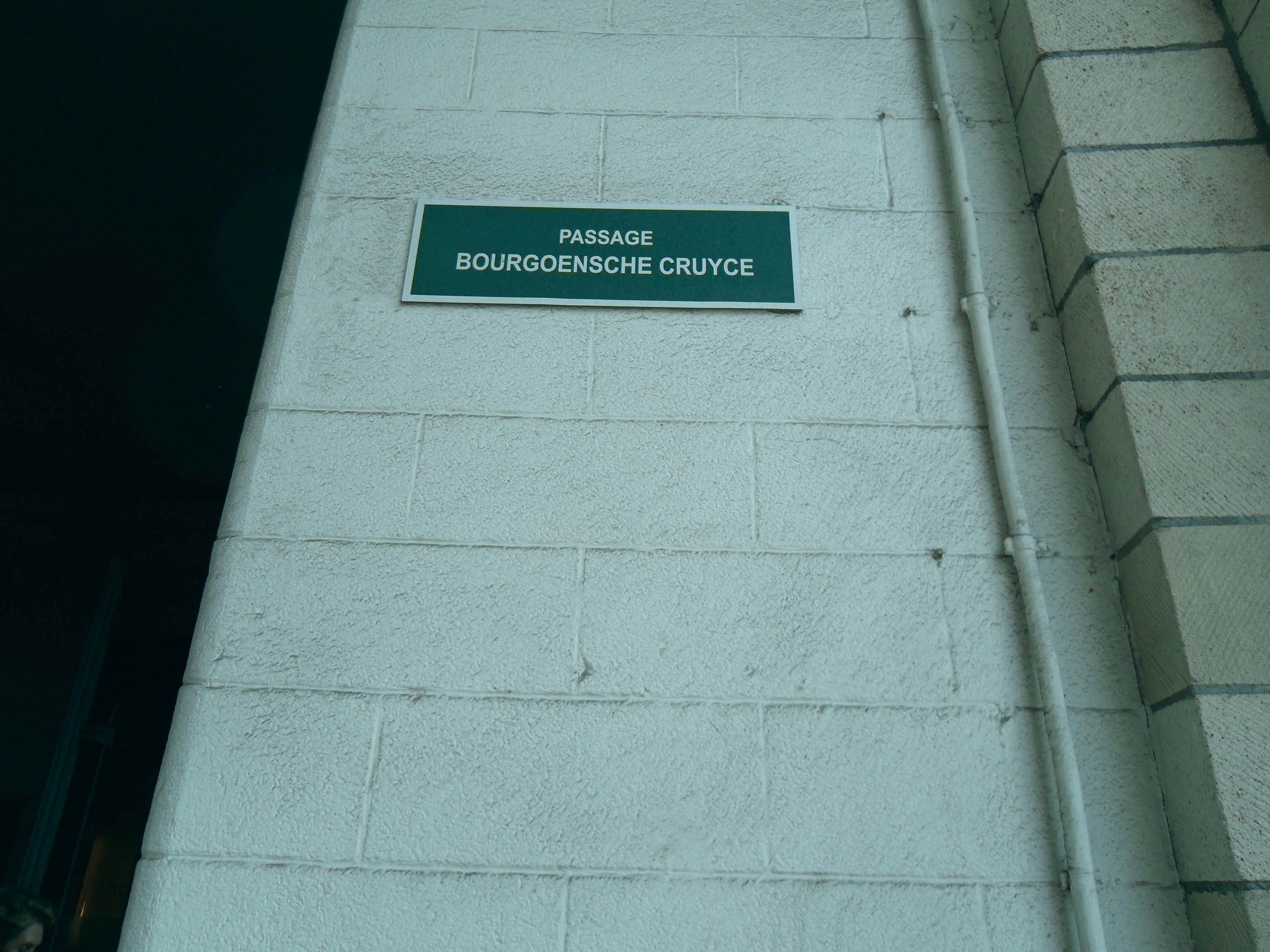 Passage Bourgoensche Cruyce in Brugge